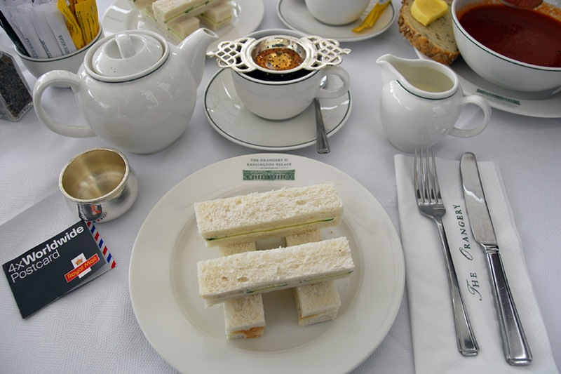 Cucumber and cream cheese sandwiches with tea as served at The Orangery at Kensington Palace in London, England